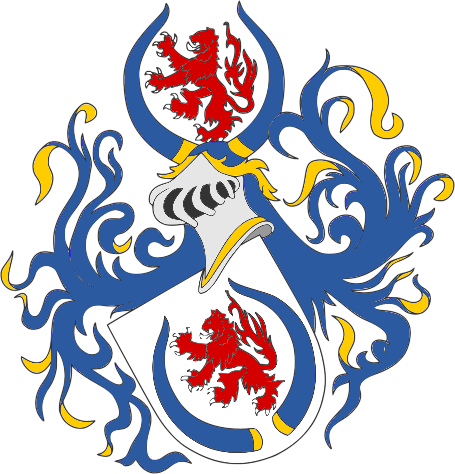 Coat Of Arms Of Jovan Stefanovic Brankovic